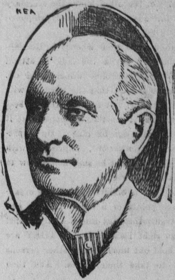 Will J. Davis was the manager of the Iroquois Theatre in Chicago, from its grand opening in November 1903 until December 30, 1903, when it was destroyed in a fire that killed over 600 people. He was arrested and charged with criminal neglect, but ultimately acquitted.